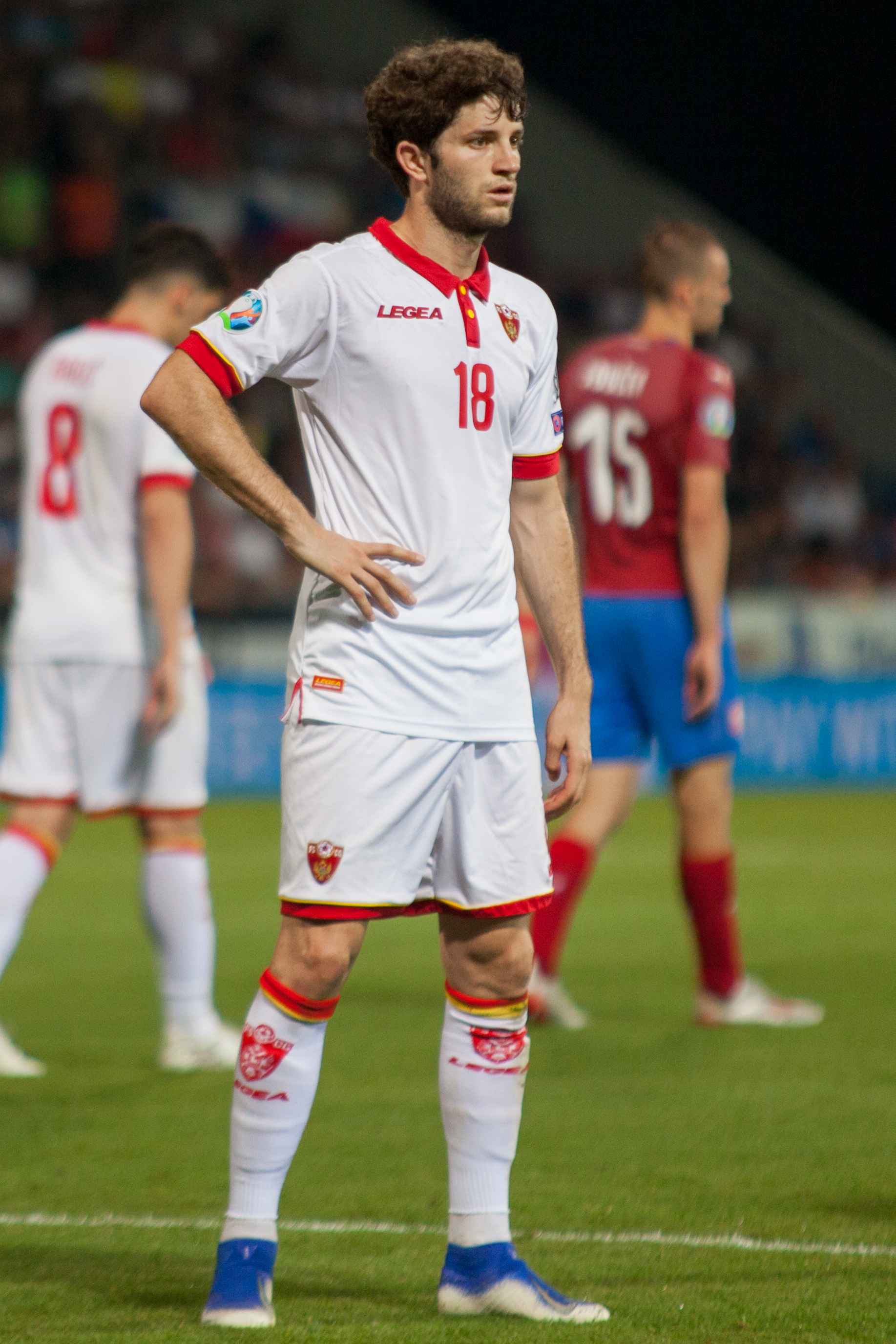 Nebojša Kosović at EURO 2020 Qualifying Round Czech Republic-Montenegro (10/6/2019, Ander Stadium, Olomouc) Personality rights warningAlthough this work is freely licensed or in the public domain, the person(s) shown may have rights that legally restrict certain re-uses unless those depicted consent to such uses. In these cases, a model release or other evidence of consent could protect you from infringement claims.